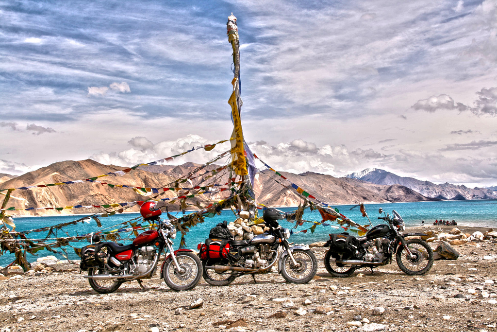 Indian-built Royal Enfield Bullets at Ladakh